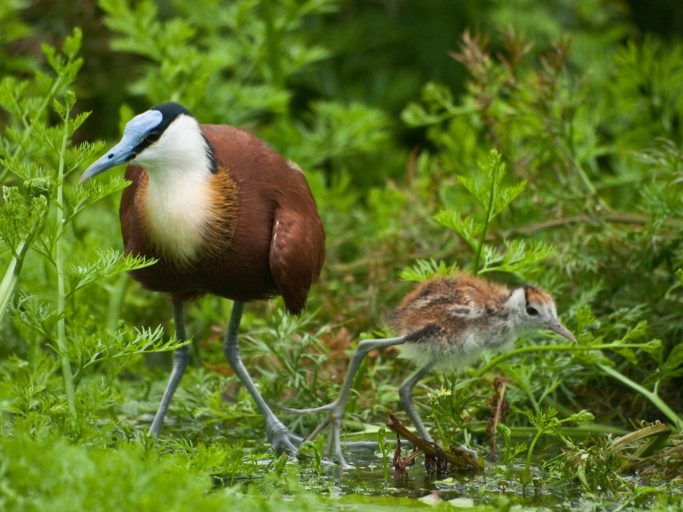 An adult African Jacana with a chick at Kakegawa Kacho-en, Kakegawa, Shizuoka, Japan.